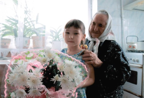 ультуру міста в 2010 р. присвоєно звання "Почесний громадянин м. Борисполя"